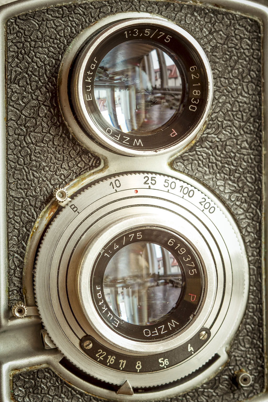 Start I - Polish two lens camera